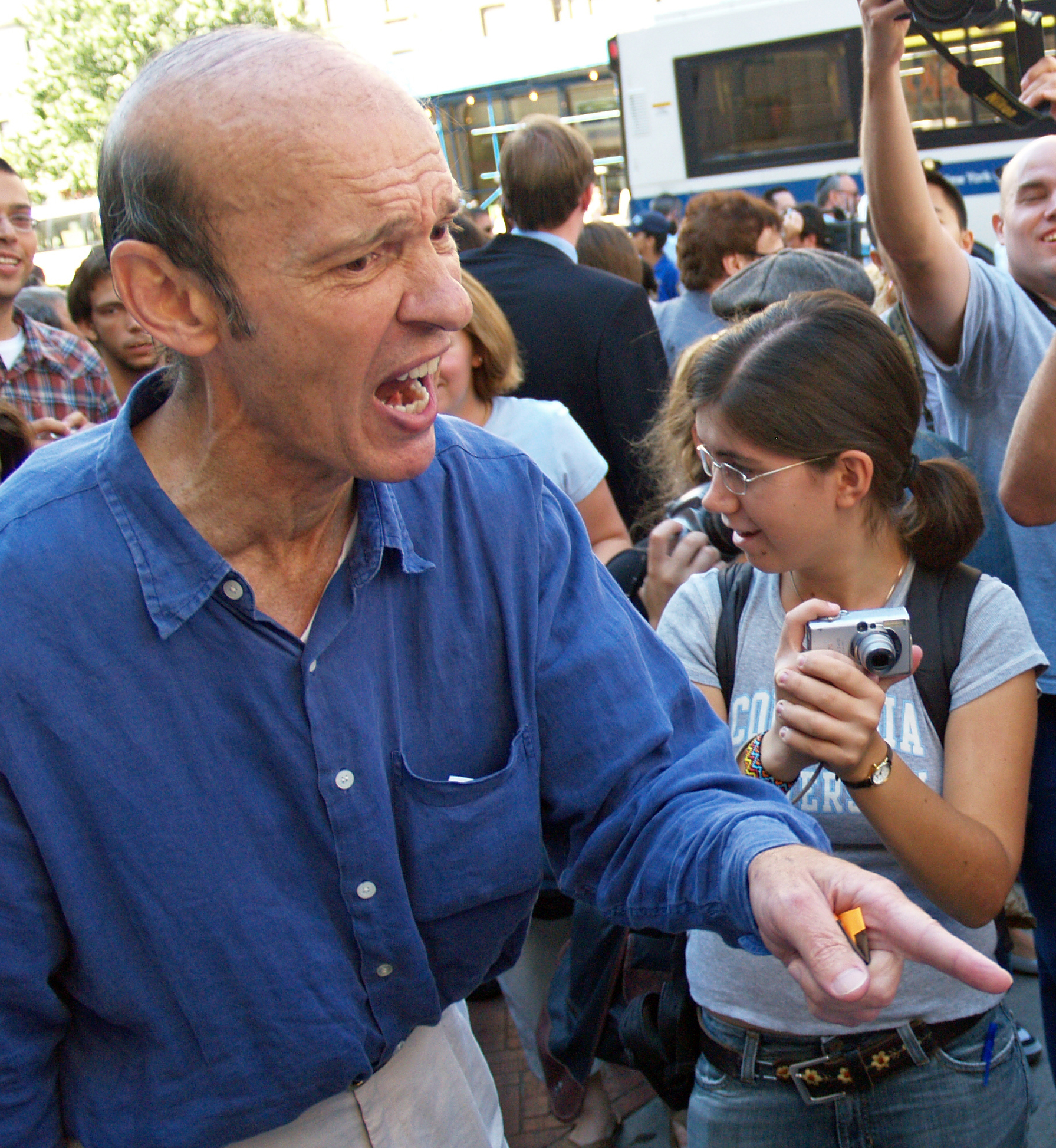 Mahmoud Ahmadinejad at Columbia by David Shankbone. To listen to these two people argue, click the audio button found above and to the left.